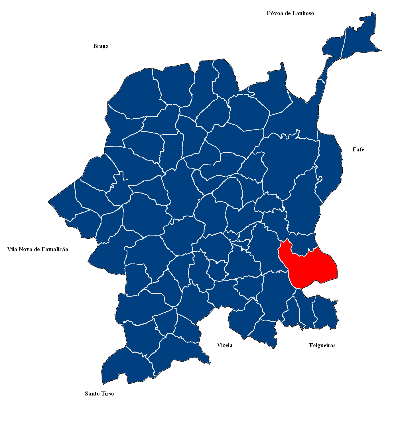 Map of Infantas parish, Guimarães Municipality, Portugal